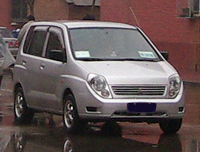 Haifa HFJ7130/7160 Saima, a Chinese license built Mitsubishi Dingo